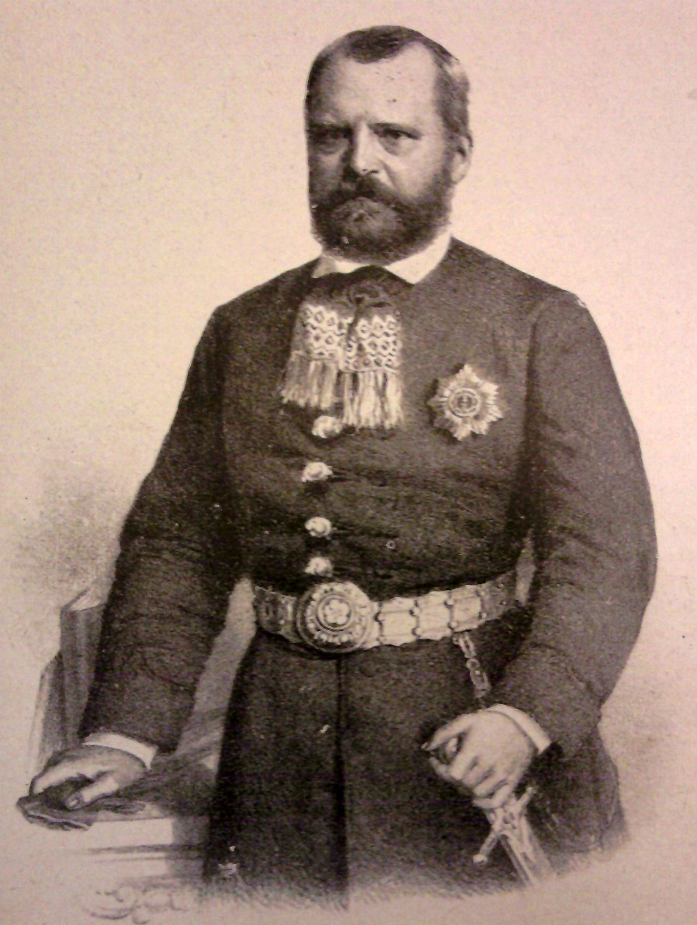 Mailáth György